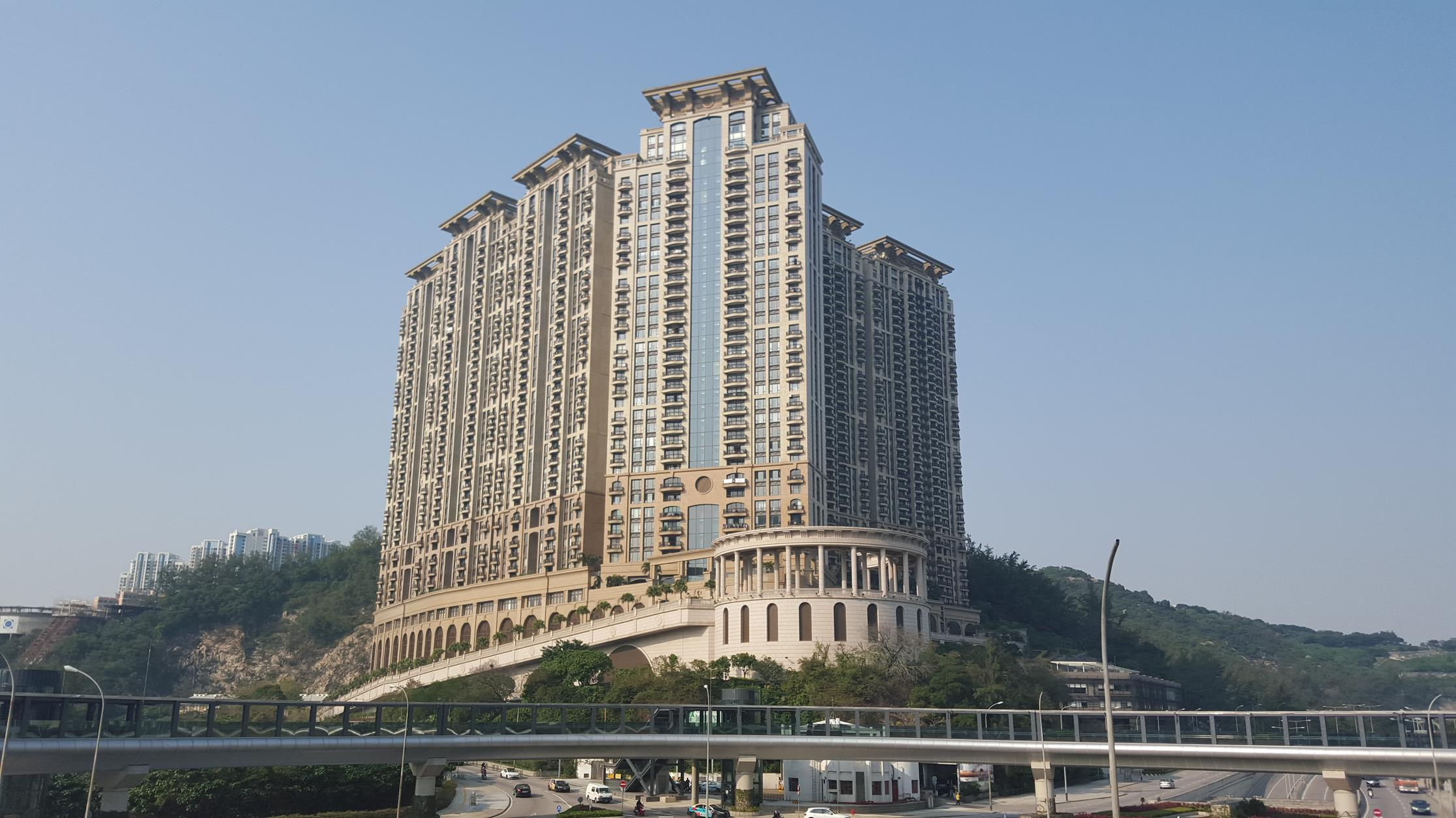 One Grantai